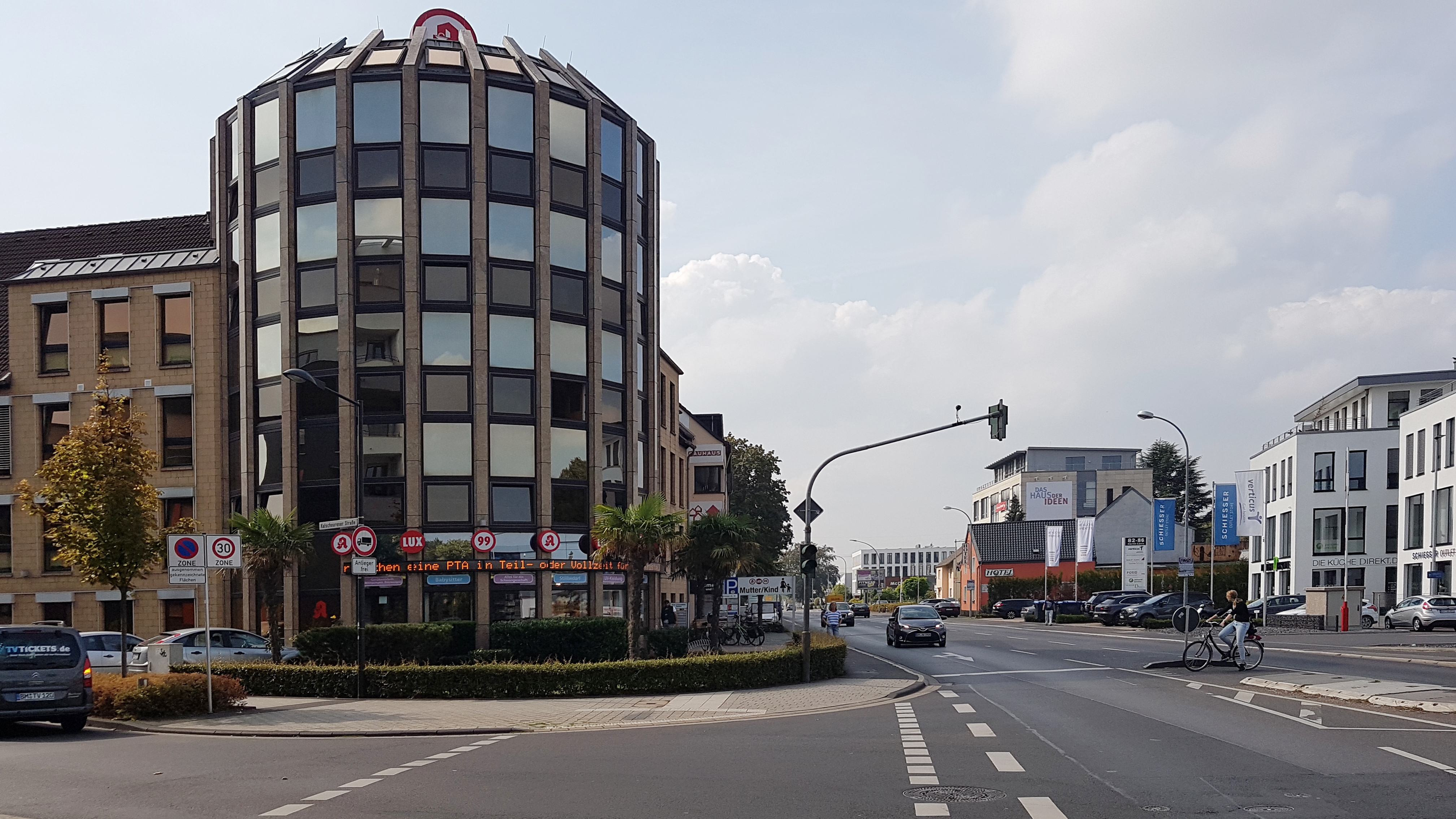 Streets and modern architecture in Hürth, a town in the Rhein-Erft-Kreis, North Rhine-Westphalia, Germany